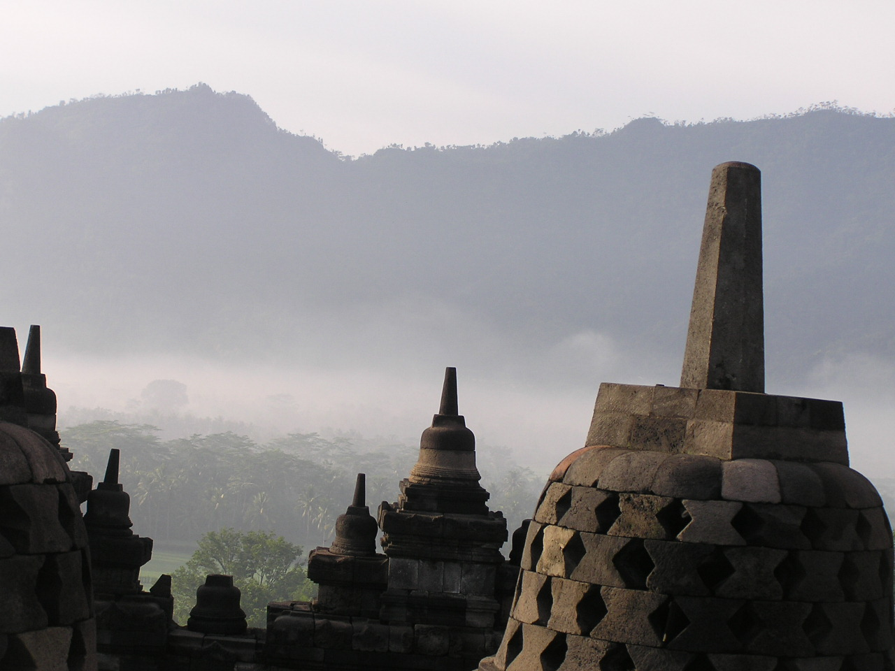 Stupas of Borobudur, Central Java, Indonesia.